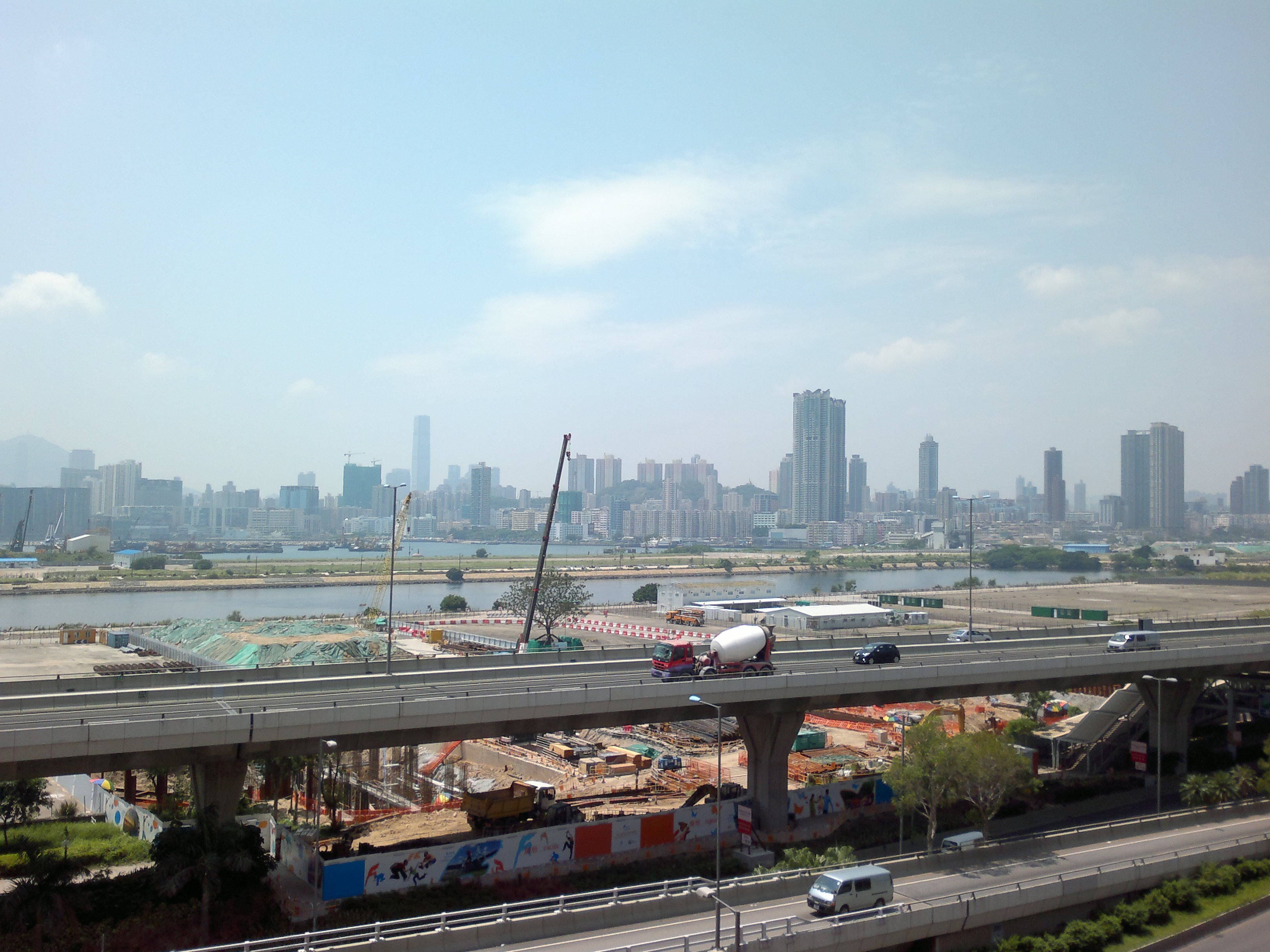 Kwun Tong Bypass near Megabox